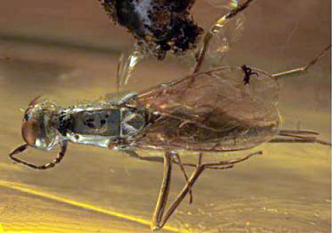 Holotype female of Brevivulva electroma, dorsal habitus.